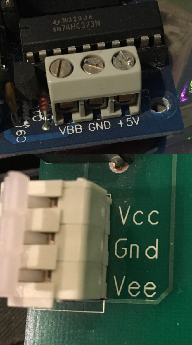 Two examples of power supply inputs on circuit boards with screenprinted voltage subscripts indicating each input